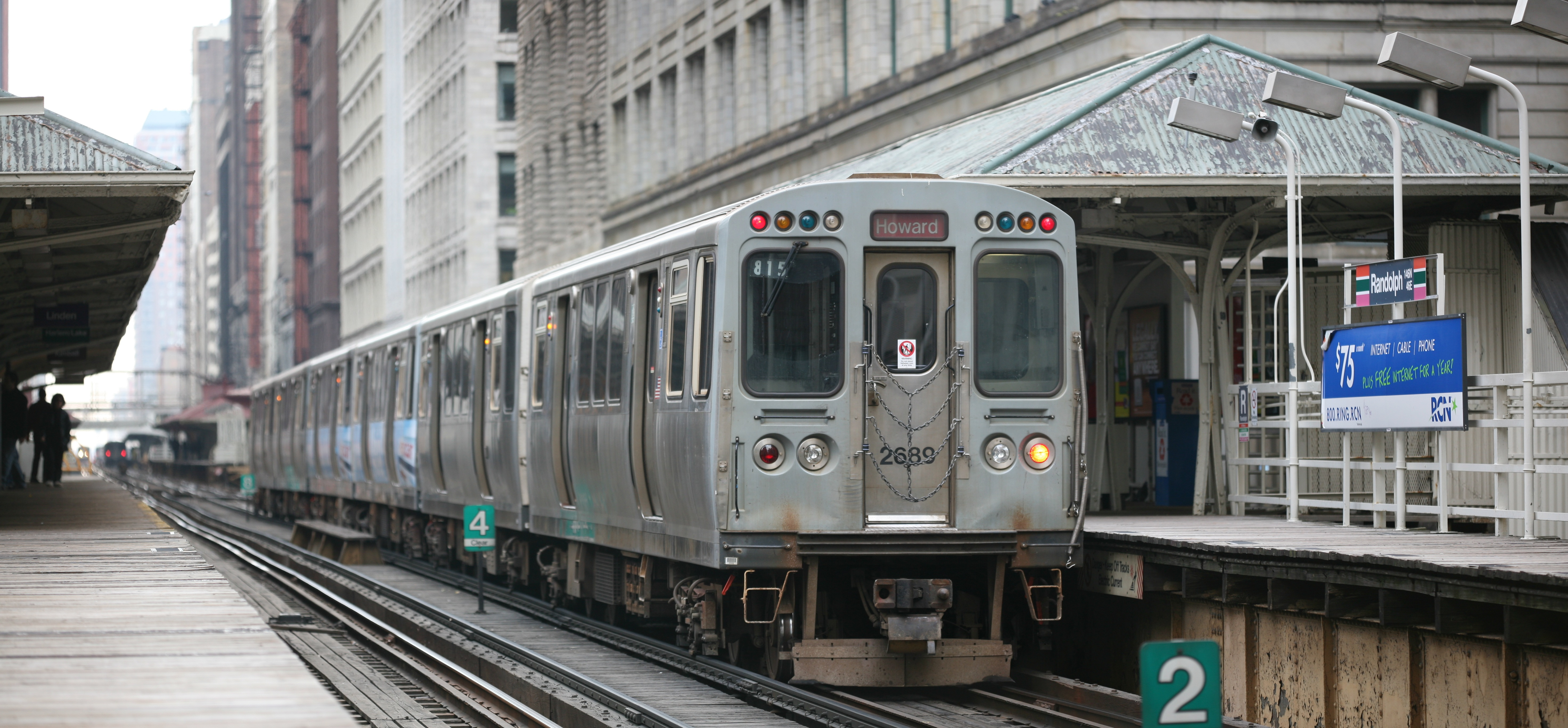 Howard bound red line train temporarily rerouted to elevated tracks at Randolph station, Chicago.